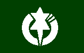 Flag of Neba Nagano